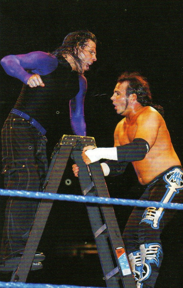 Matt Hardy taking on Jeff Hardy on a ladder during a Smackdown house show